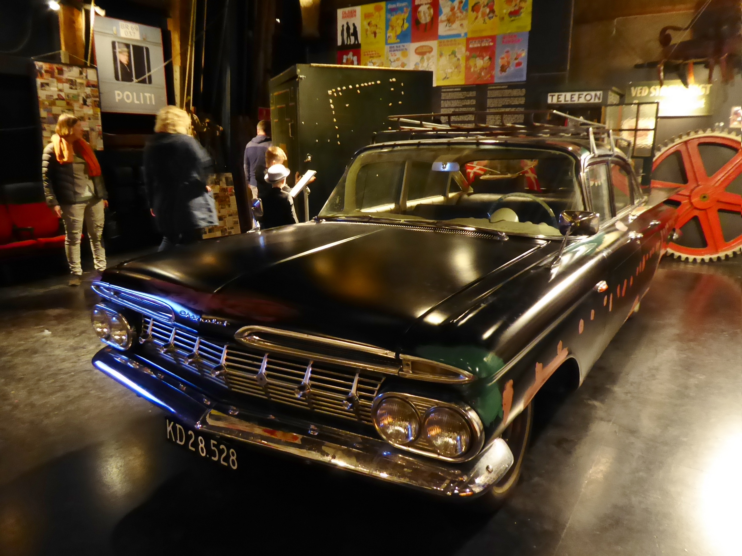 Chevrolet Bel Air ’59 used by Olsen-banden in the Danish Olsen-banden film series in a special exhibition at Nordisk Film in Copenhagen.